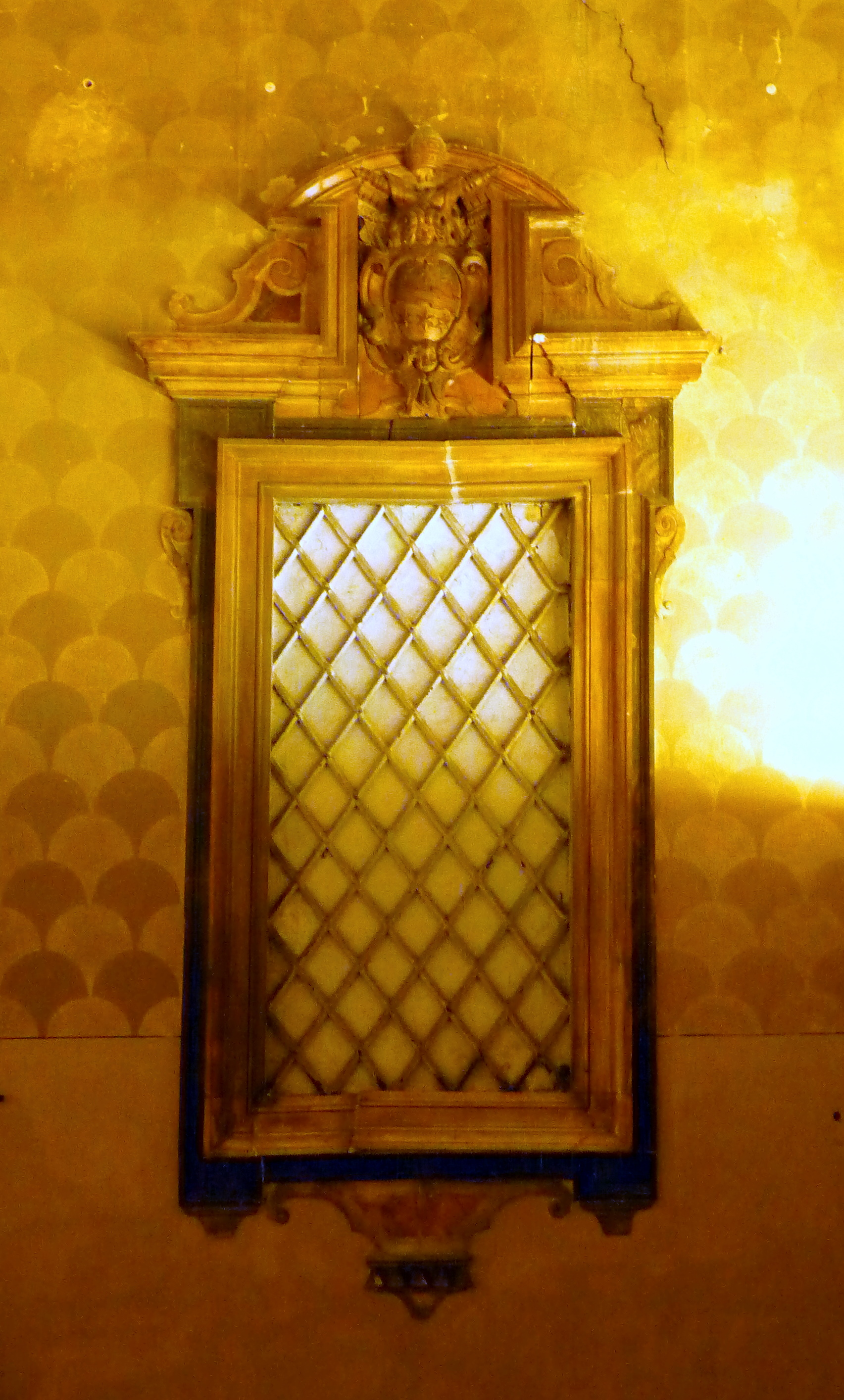 Santo Spirito in Sassia in Rome; Sala Lancisi window of the pharmacy